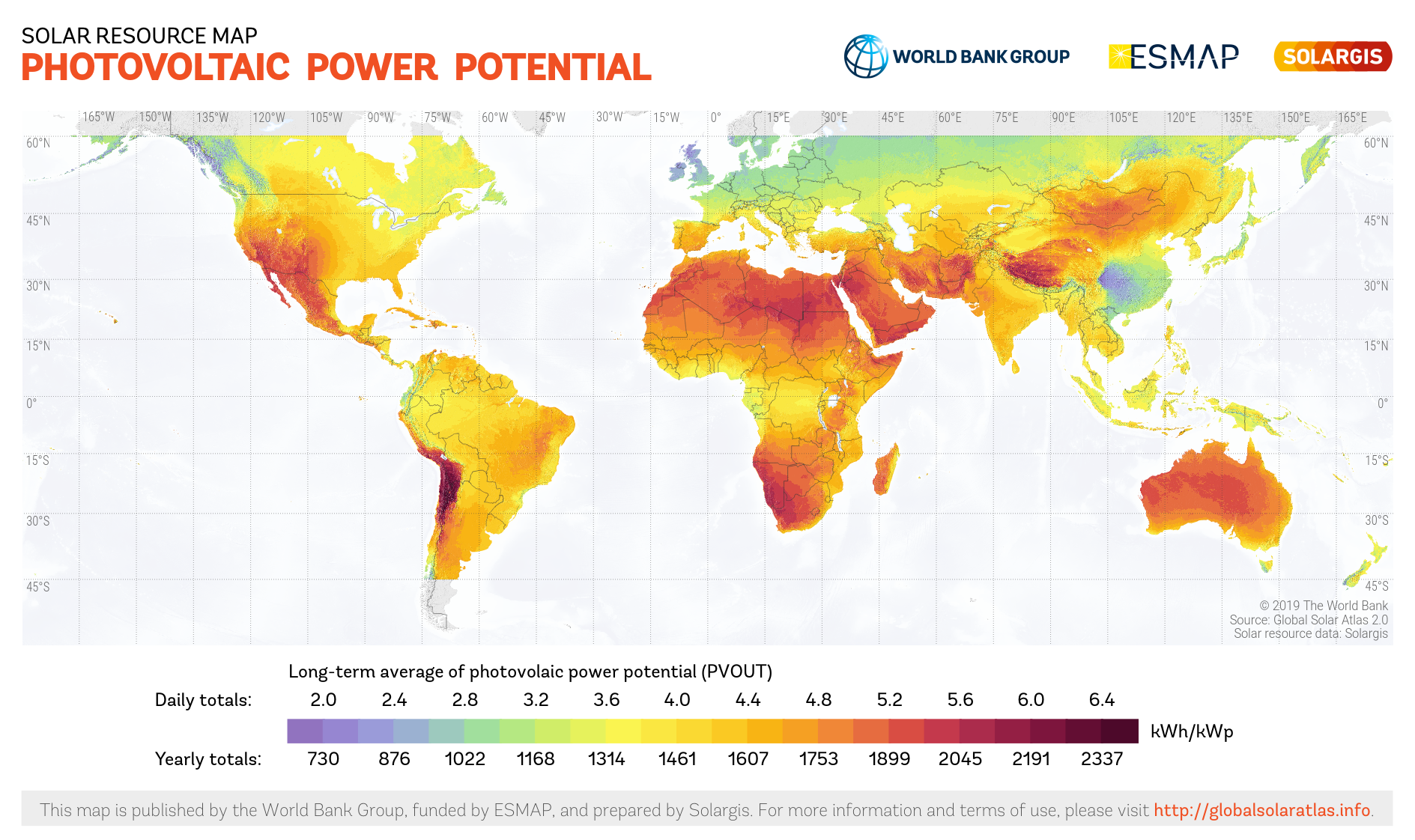 Global Solar Atlas (GSA 2.2) Photovoltaic Power Potential: This map provides a summary of estimated solar photovoltaic (PV) power generation potential. It represents the average daily/yearly totals of electricity production from a 1 kW-peak grid-connected solar PV power plant, calculated for a period from 1994/1999/2007 (depending on the region) to 2018. The PV system configuration consists of ground-based, free-standing structures with crystalline-silicon PV modules mounted at a fixed position, with optimum tilt towards the equator to maximize yearly energy yield. Use of high efficiency inverters is assumed. The solar electricity calculation is based on high-resolution solar resource data and PV modeling software provided by Solargis. The calculation takes into account solar radiation, air temperature, and terrain, to simulate the energy conversion and losses in the PV modules and other components of a PV power plant. In the simulation, losses due to dirt and soiling was estimated to be 3.5%. The cumulative effect of other conversion losses (inter-row shading, mismatch, inverters, cables, transformer, etc.) is assumed to be 7.5%. The power plant availability is considered to be 100%. The underlying solar resource database is calculated from atmospheric and satellite data with a 10/15/30-minute time step, and a nominal spatial resolution of 1 km.